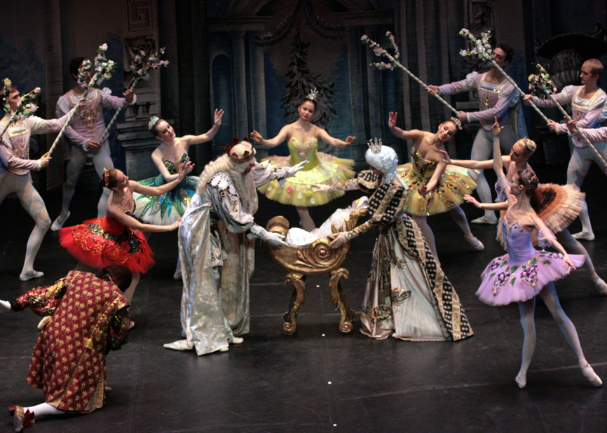 Scene from the prologue of the ballet The Sleeping Beauty, performed by the National Ballet of the Kiev Opera (2011). The fairies surround Aurora's manger.